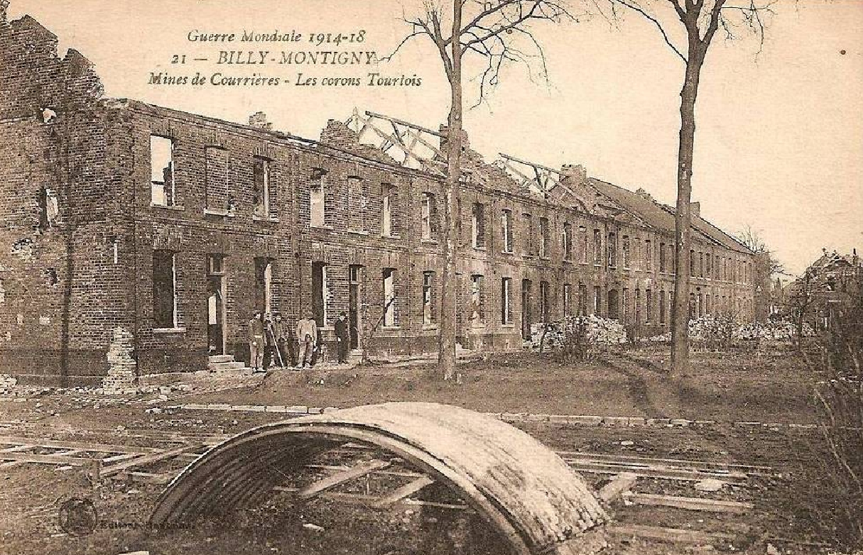 Billy-Montigny, France.